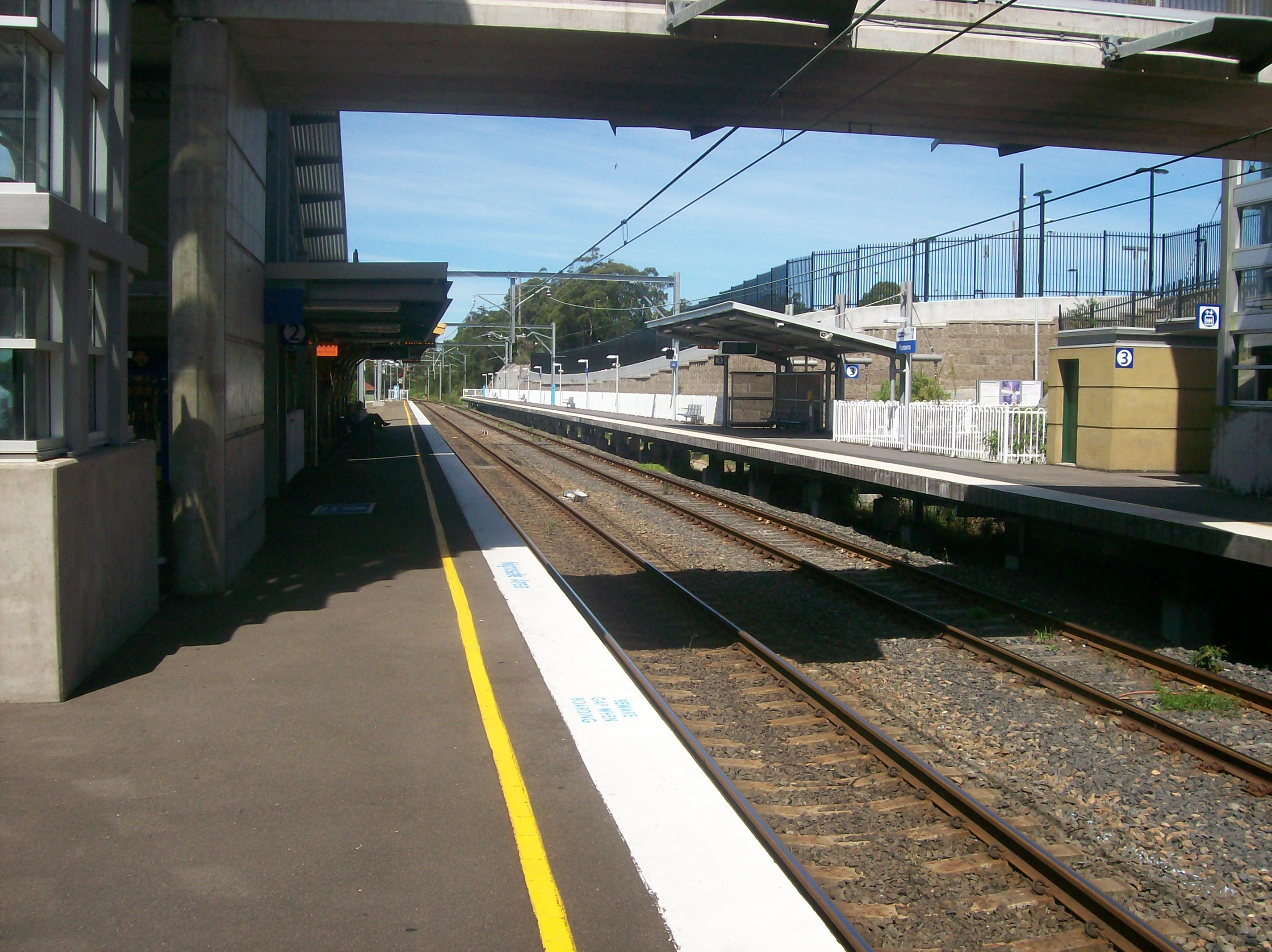 Berowra railway station platform 2